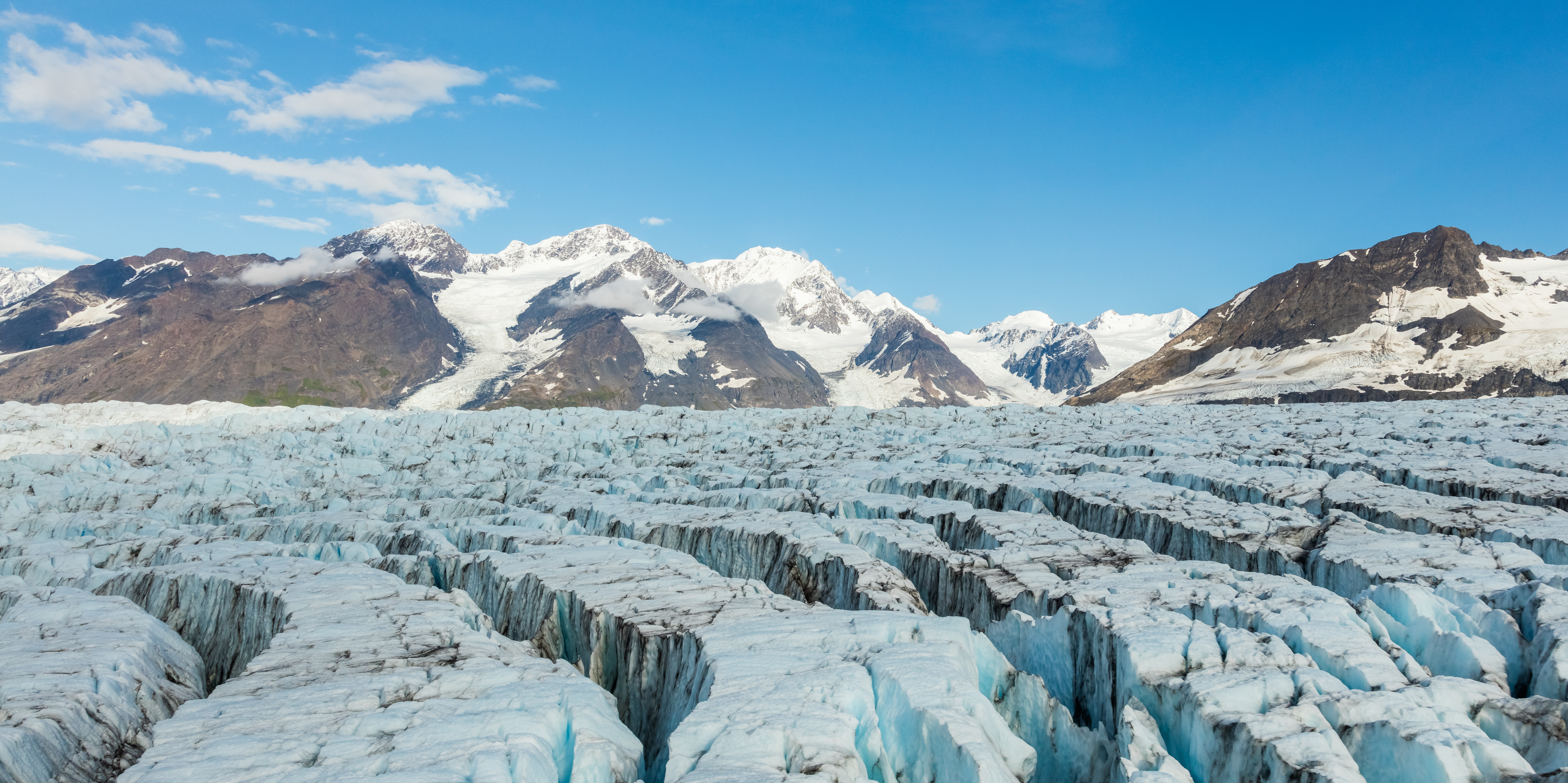 View of a glacier from the top in Chugach State Park, Alaska, United States.